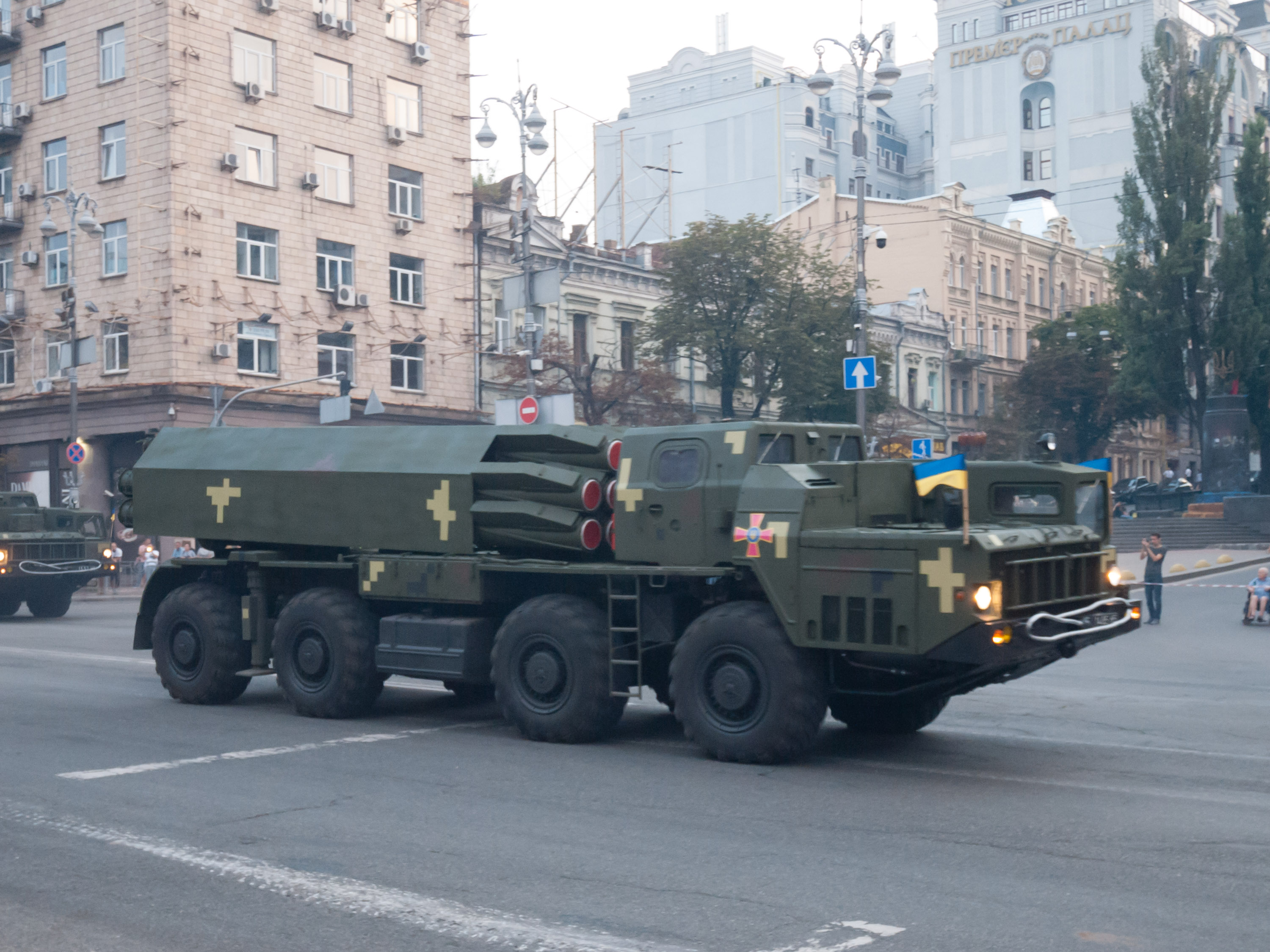 Ukrainian tactical missile system Vilkha, rehearsal for the Independence Day military parade in Kyiv, 2018